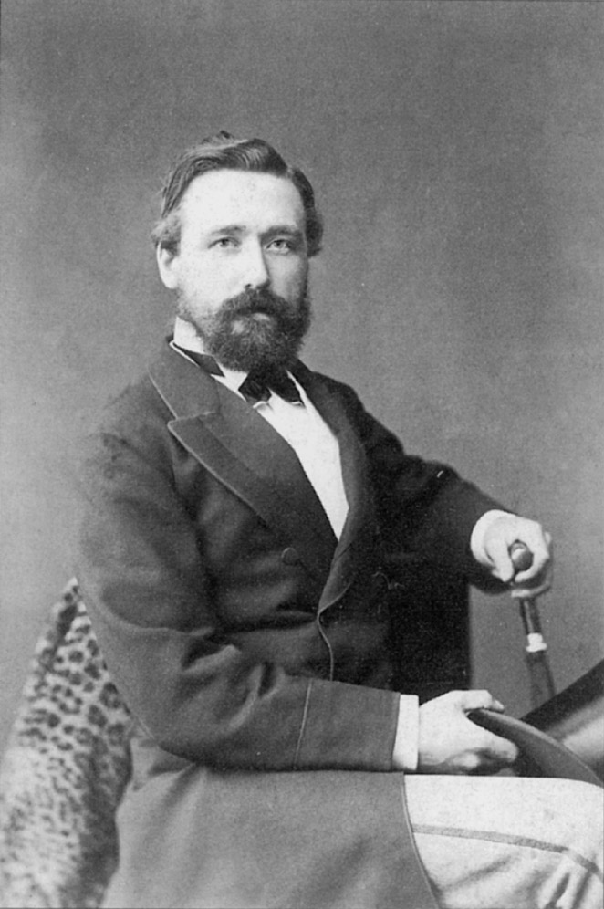 John William Godward's father .